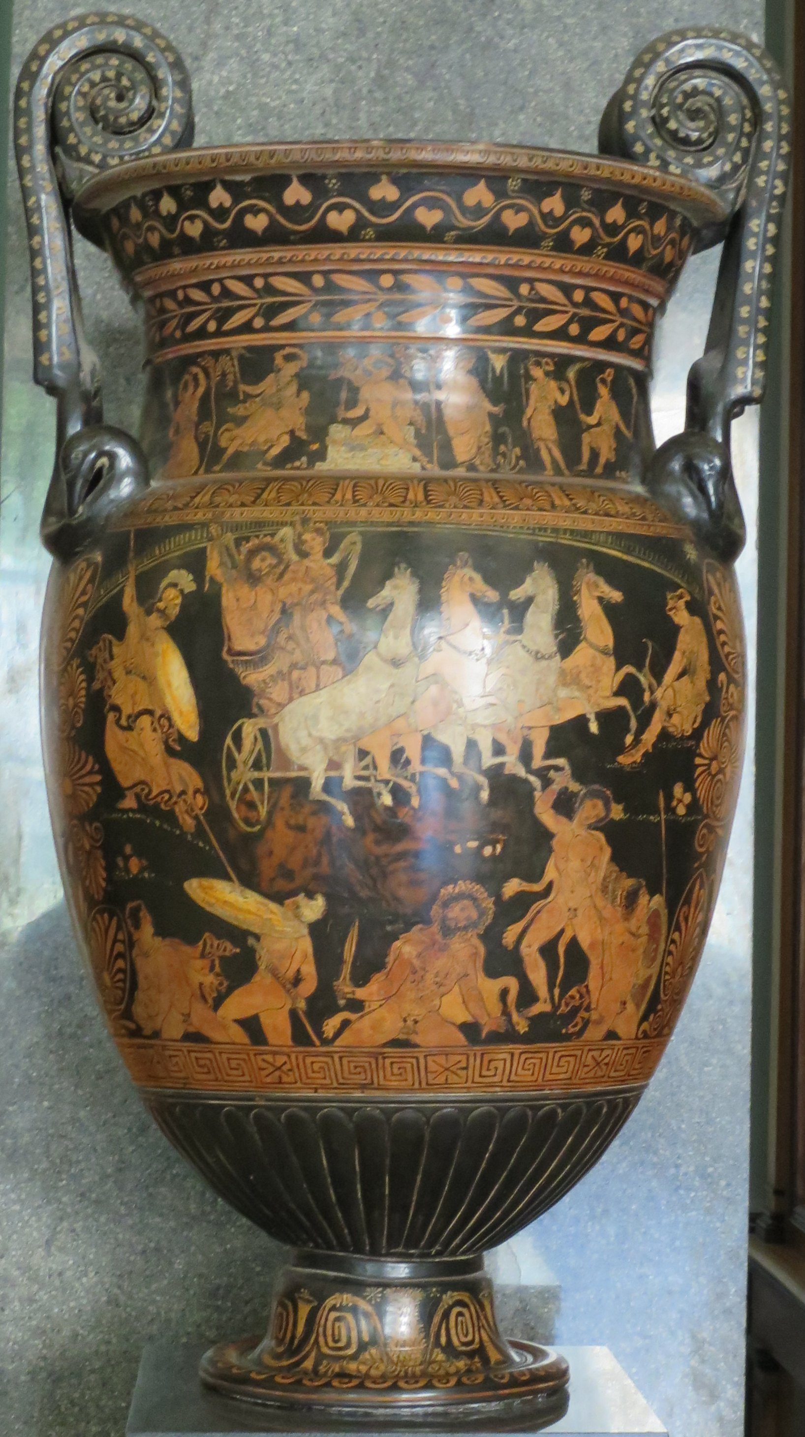 Red figure volute krater with Gigantomachy, c. 350 BCE, the Lycurgus Painter, southern Italy, The Hermitage